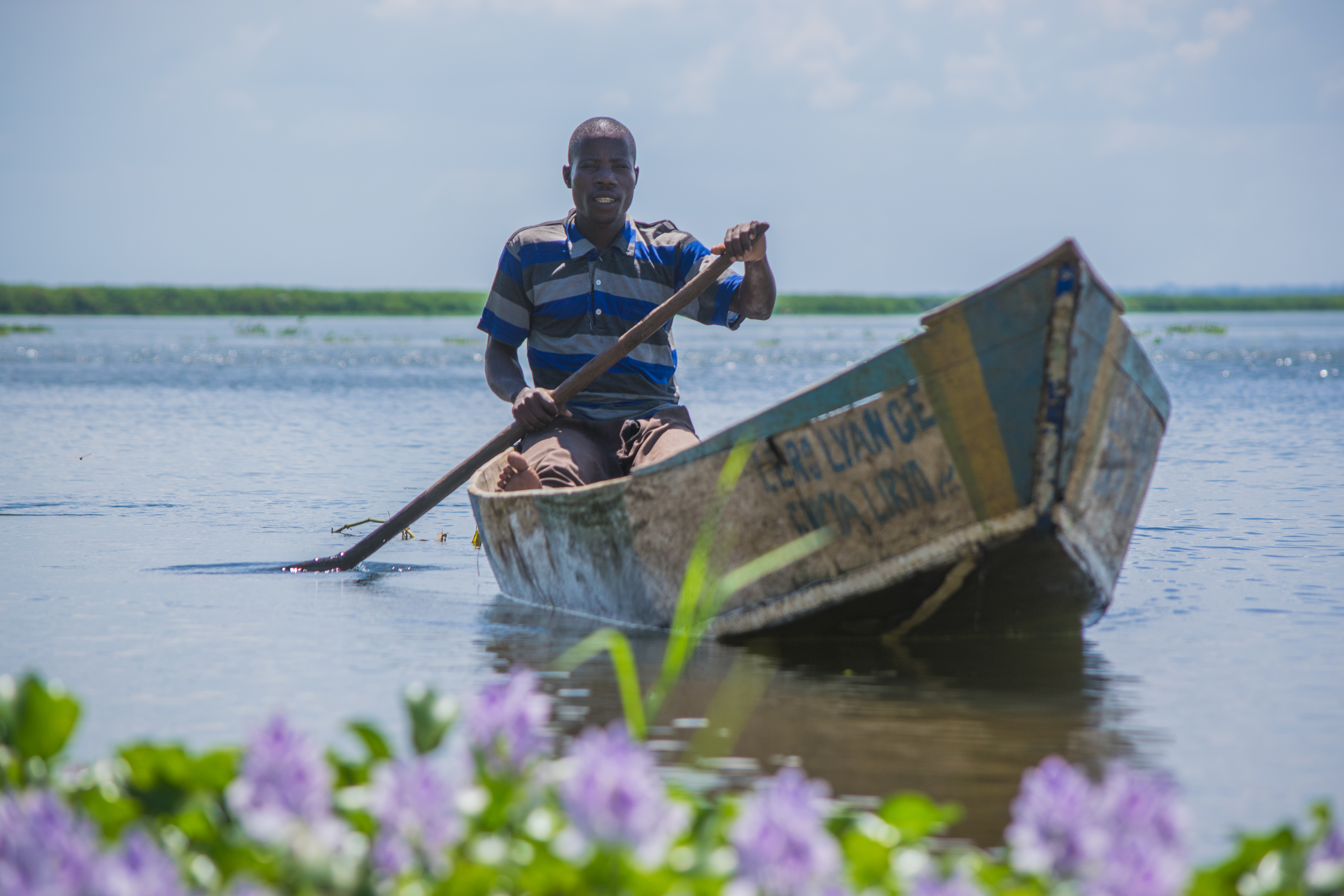 The ferryman approaches the shores of the Nile in Kamuli, Uganda. This is an image of "African people at work" from Uganda